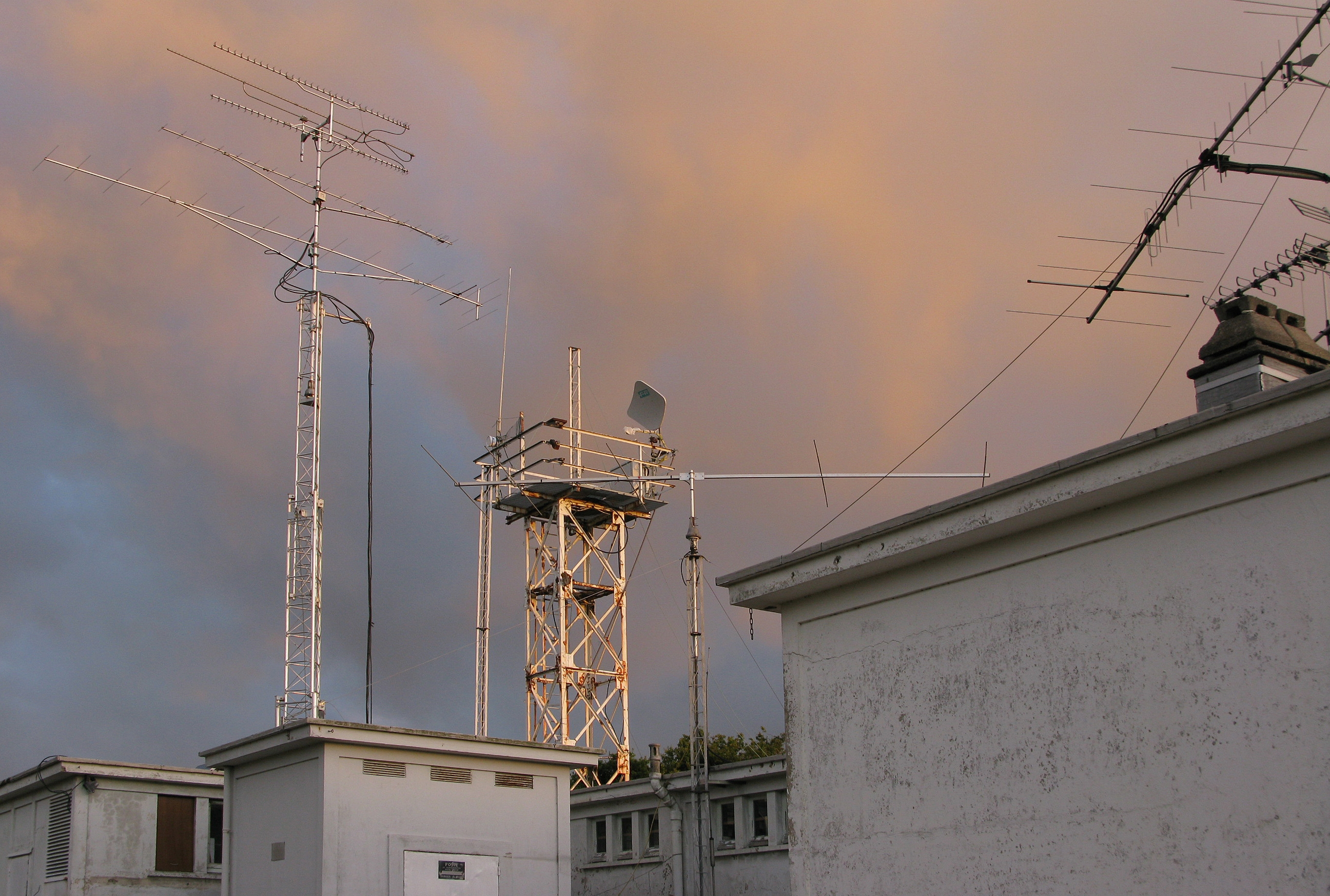 Amateur radio station F6KPL situated in Normandy near Cherbourg; aerials 50MHz and higher.